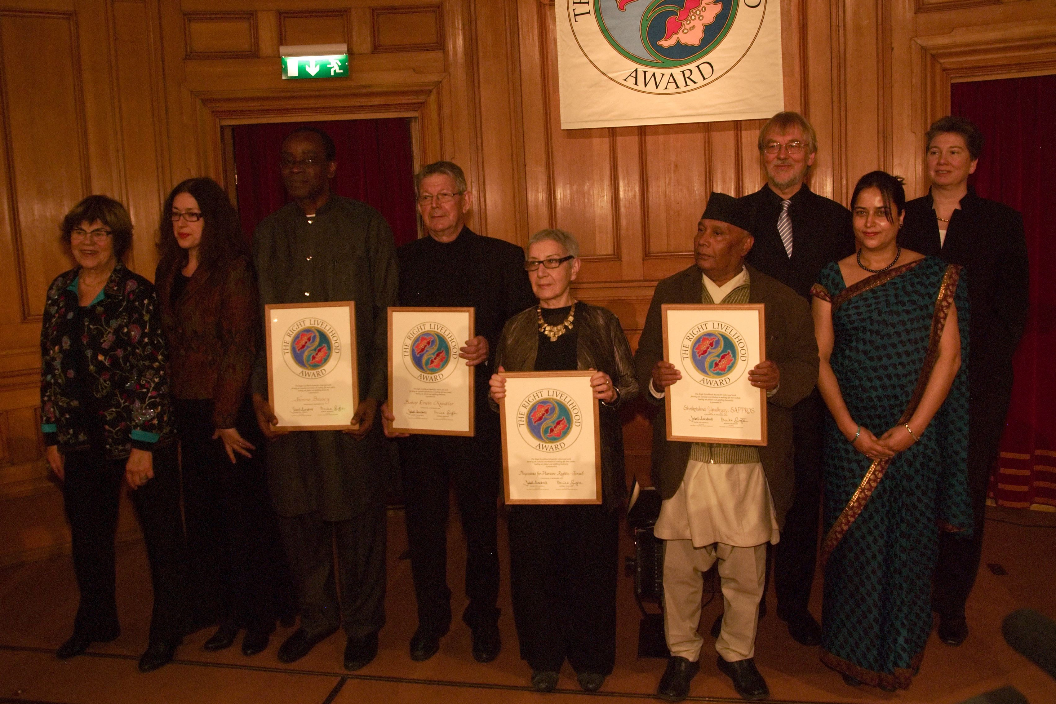 Award ceremony of the Right Livelihood Awards 2010